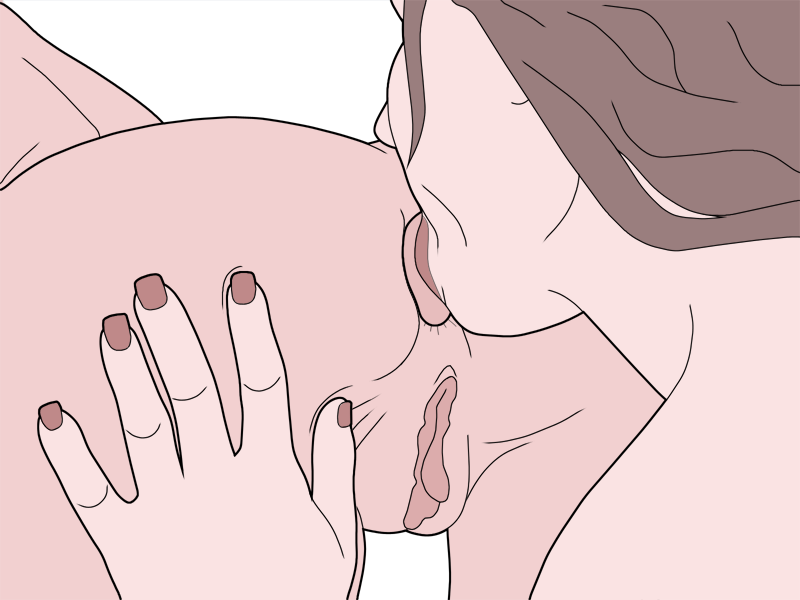 A woman performing anilingus on another woman.